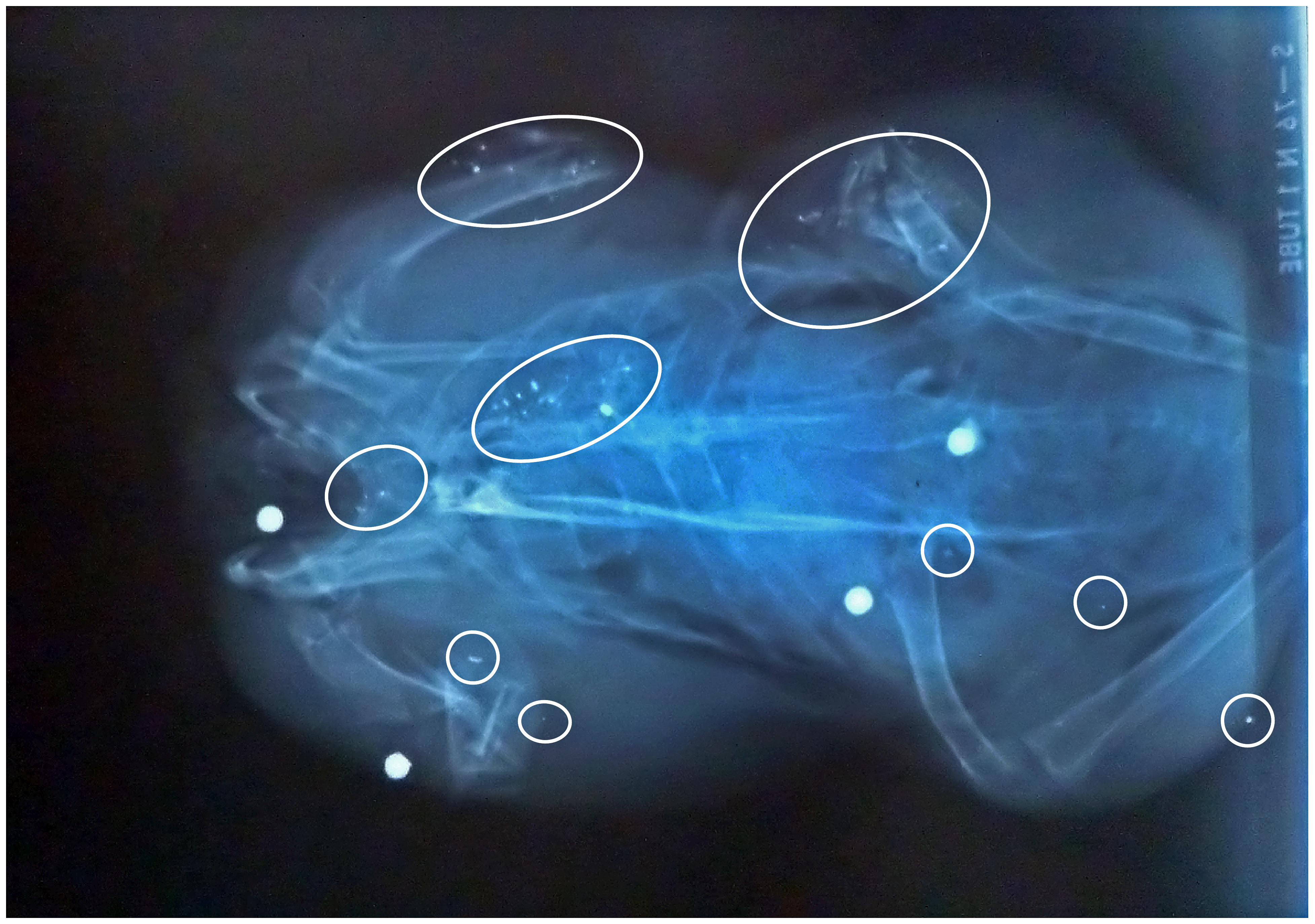 X-ray of a woodpigeon (Columba palumbus) illustrating four gunshot and numerous small radio-dense fragments. Radio-dense fragments may trace the passage of shot through the bird; some fragments are close to bone suggesting fragmentation on impact, others are not.